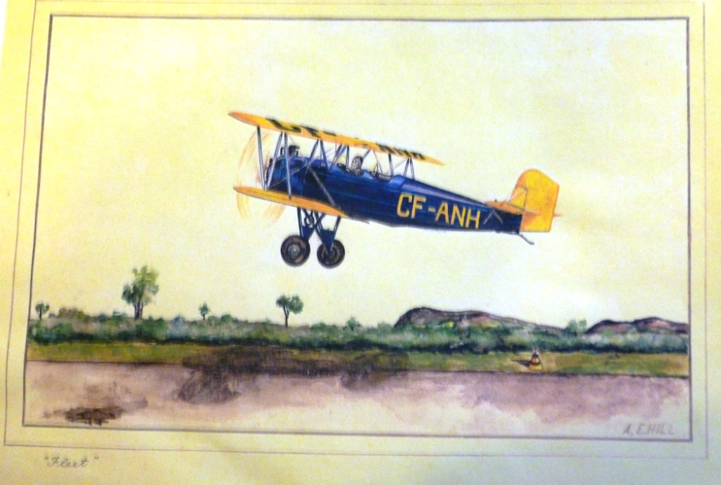 This sketch was made by my father sometime in the 1930s. I inherited it when he died. I then photographed it myself. I am happy for it to be used free of copyright restrictions John E. Hill (talk) 14:13, 15 June 2014 (UTC)